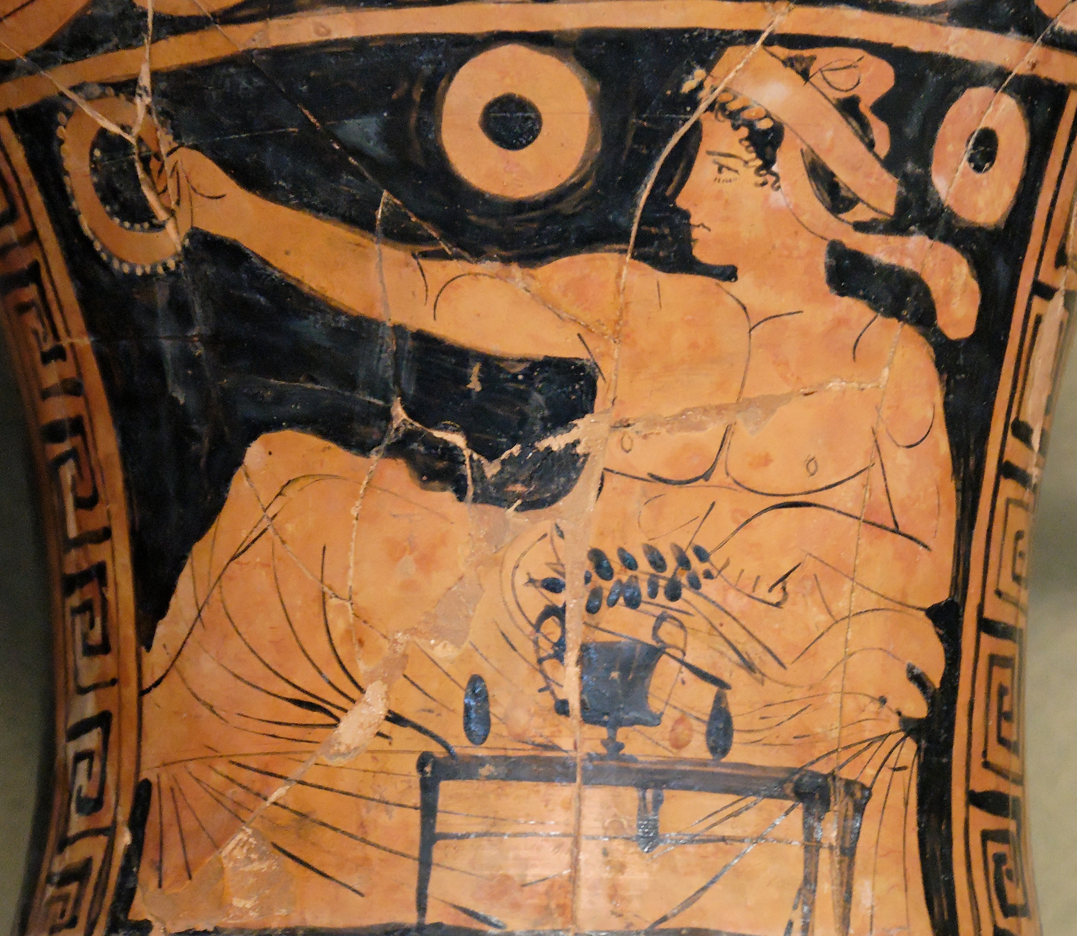 Symposiast. Side B of an Boeotian red-figure kantharos, ca. 450-425 BC. From Boeotia.